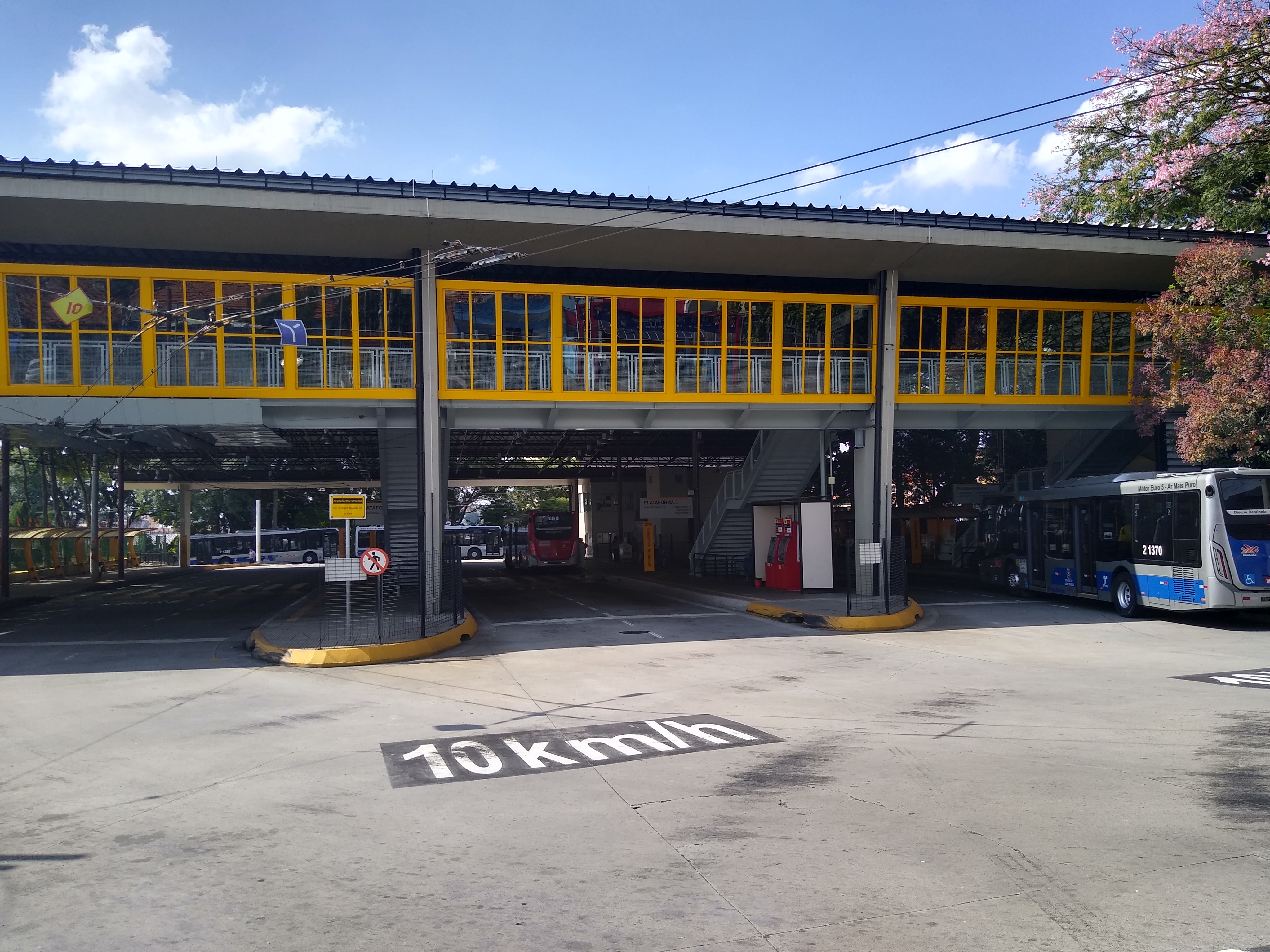 Terminal Penha